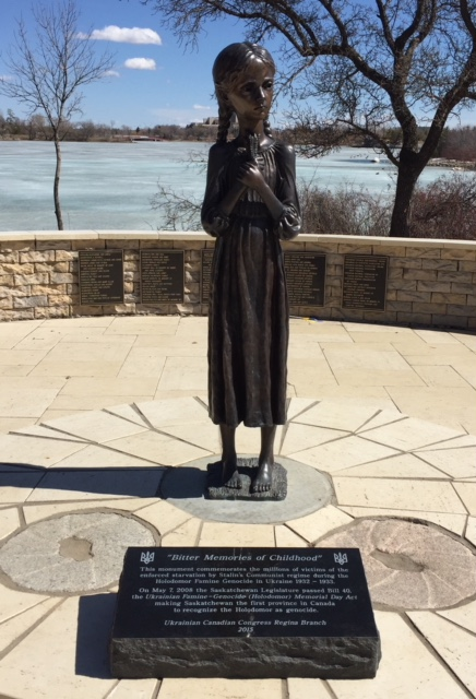 Holodomor Statue in Wascana Park, Regina, Saskatchewan